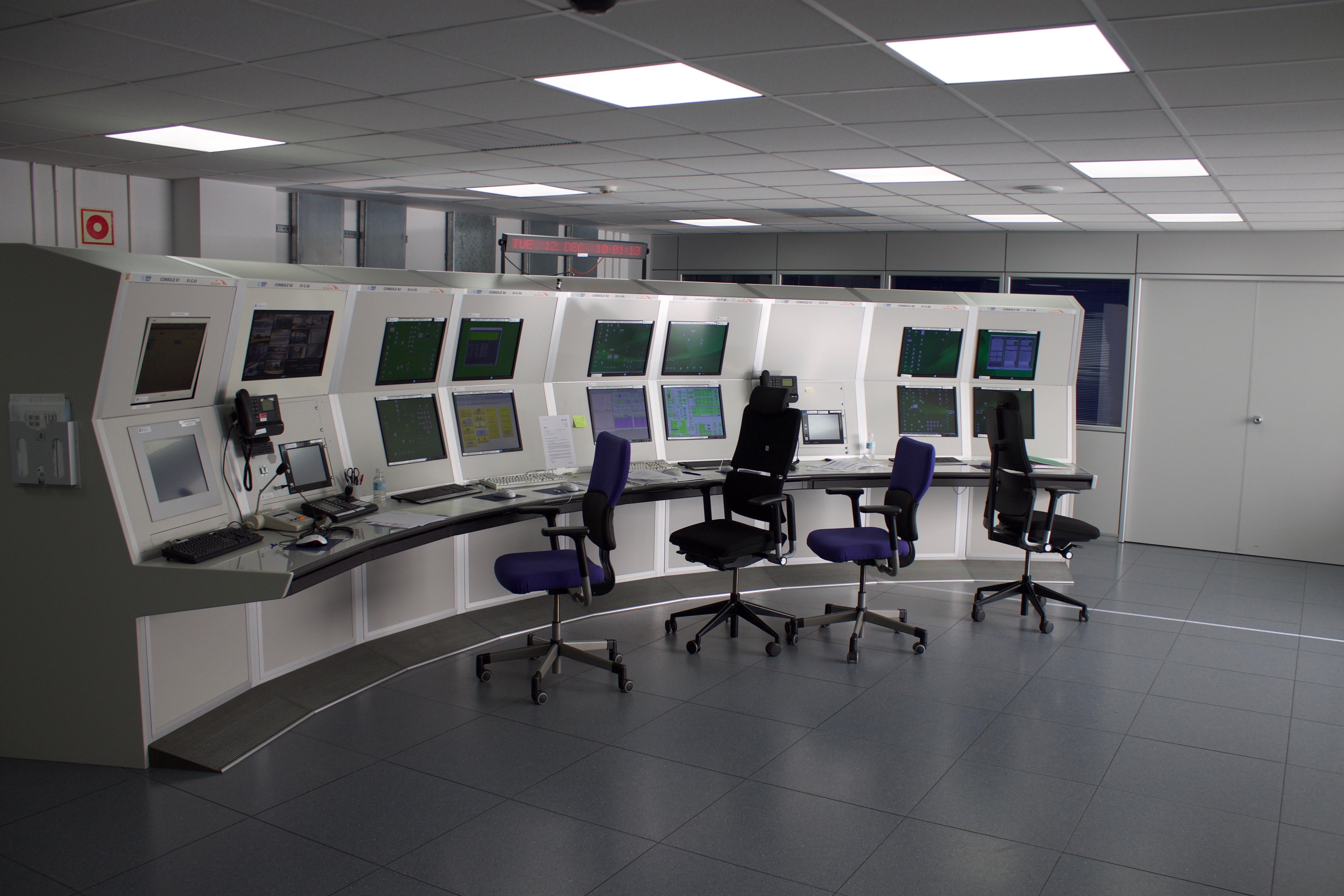 Control room of ESA's Cebreros Station, located in the province of Ávila, Spain. This room is used as a backup or for maintenance operations, as the station is nominally controlled from the ESOC in Darmstadt (Germany)